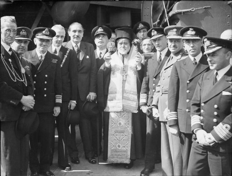 The Royal Navy and Greek Navy during the Second World War A group of British and Greek naval officers and officials with the Bishop of Thyateira in the centre, and the Greek Minister of Information, M Andre Michalopoulos (bare headed, second to the right of the bishop) during the commissioning at Swan Hunters, Wallsend on the Tyne, of the new Greek destroyer HHMS PINDOS.